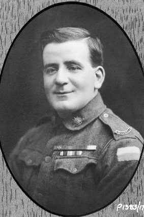 Studio portrait of Sergeant John Woods Whittle VC DCM, an Australian recipient of the Victoria Cross during the First World War.